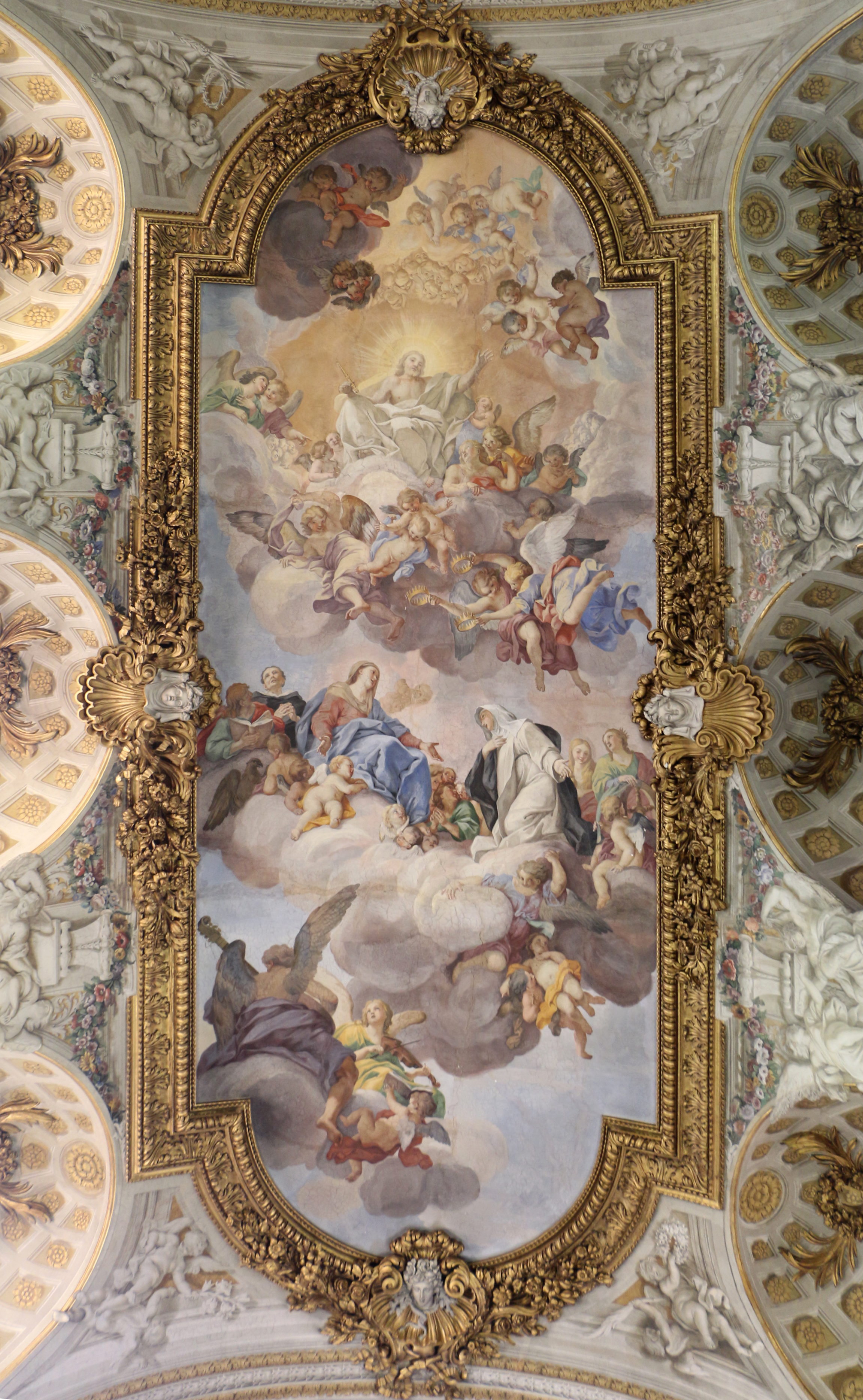 Santa Caterina a Magnanapoli (Rome) - Interior